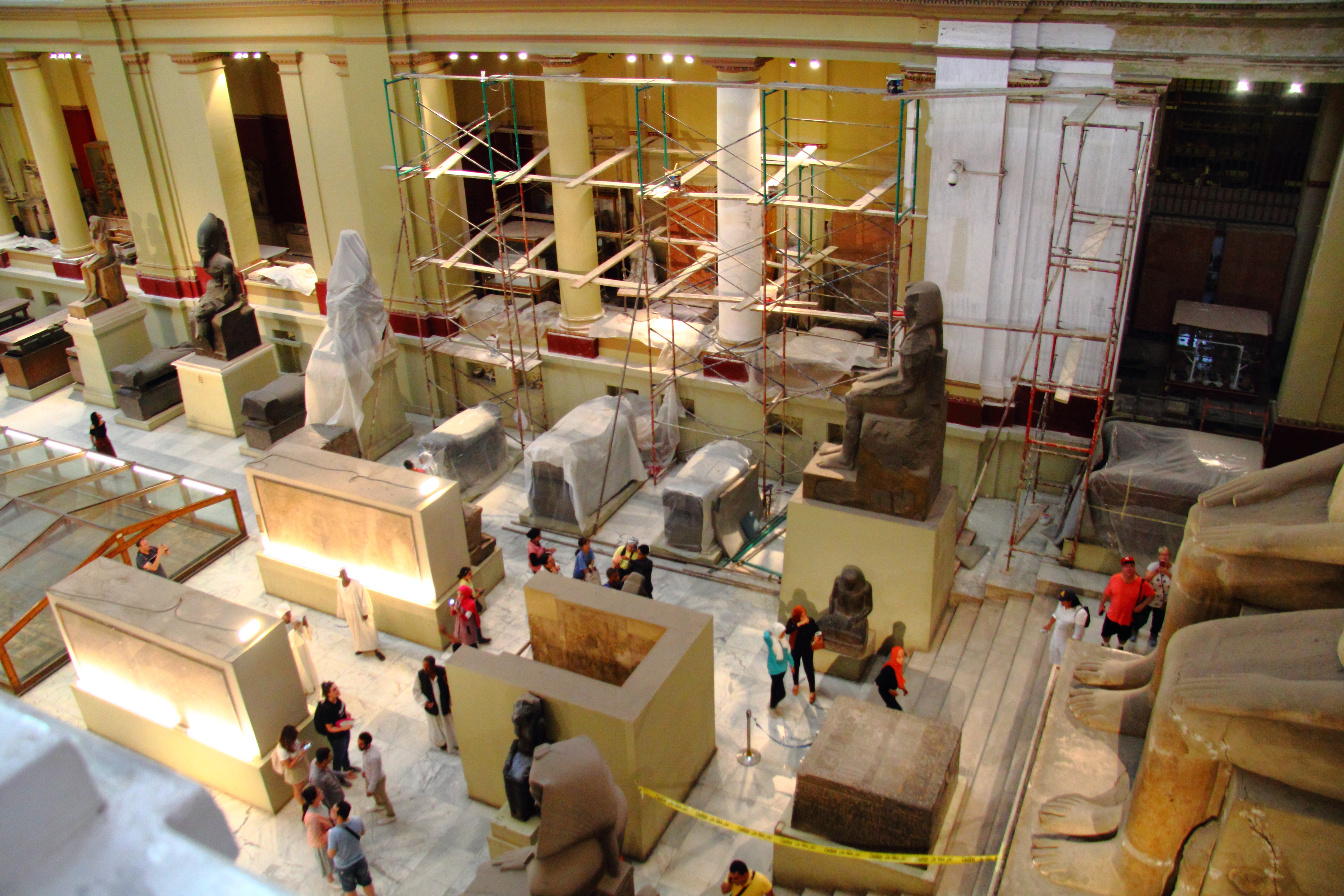 Egyptian Museum, Cairo: View from the upper floor into the ground floor showing the preparations of colossal statues for being moved to the Grand Egyptian Museum in Giza